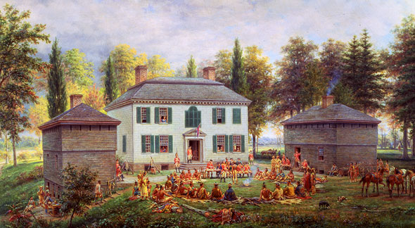 Sir William Johnson Presenting Medals to Chiefs of the Six Nations at Johnstown, N.Y., 1772, shows Sir William Johnson holding a Native American Conference at Johnson Hall